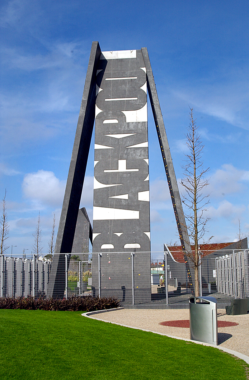 Photograph taken by Simon Povey in 2006 using a Nikon D1 (